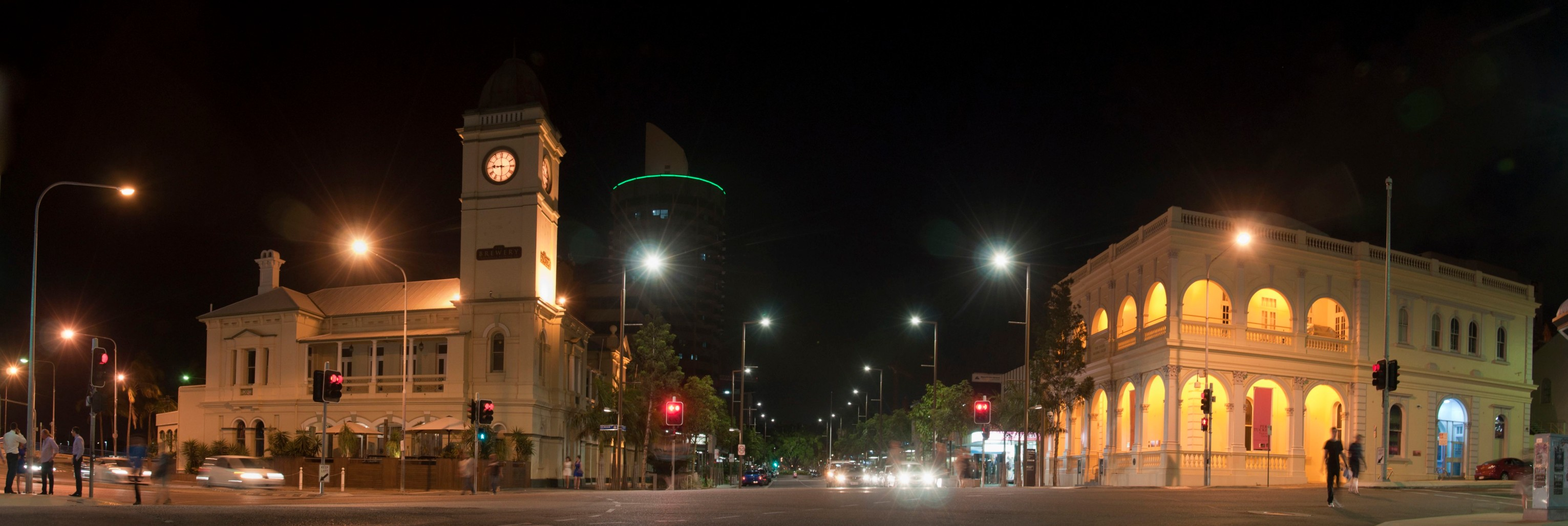 Flinders street at night